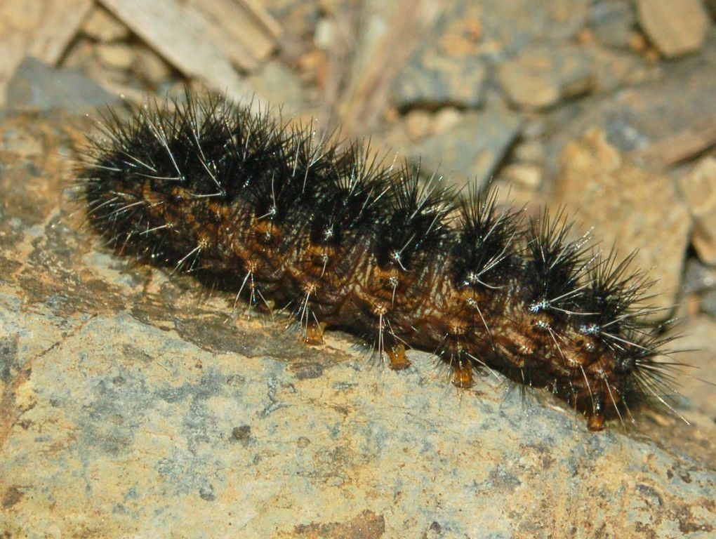 Caterpillar - Coscinia cribraria